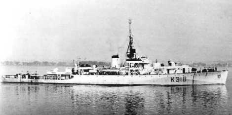 River class frigate HMCS Jonquiere